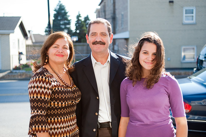 Jesus 'Chuy' Garcia